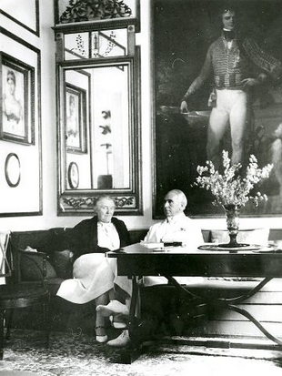 Georg and Agnete Bruhn photographed in the house Frieboeshvile with a painting of F. C. C. Frieboe in the background